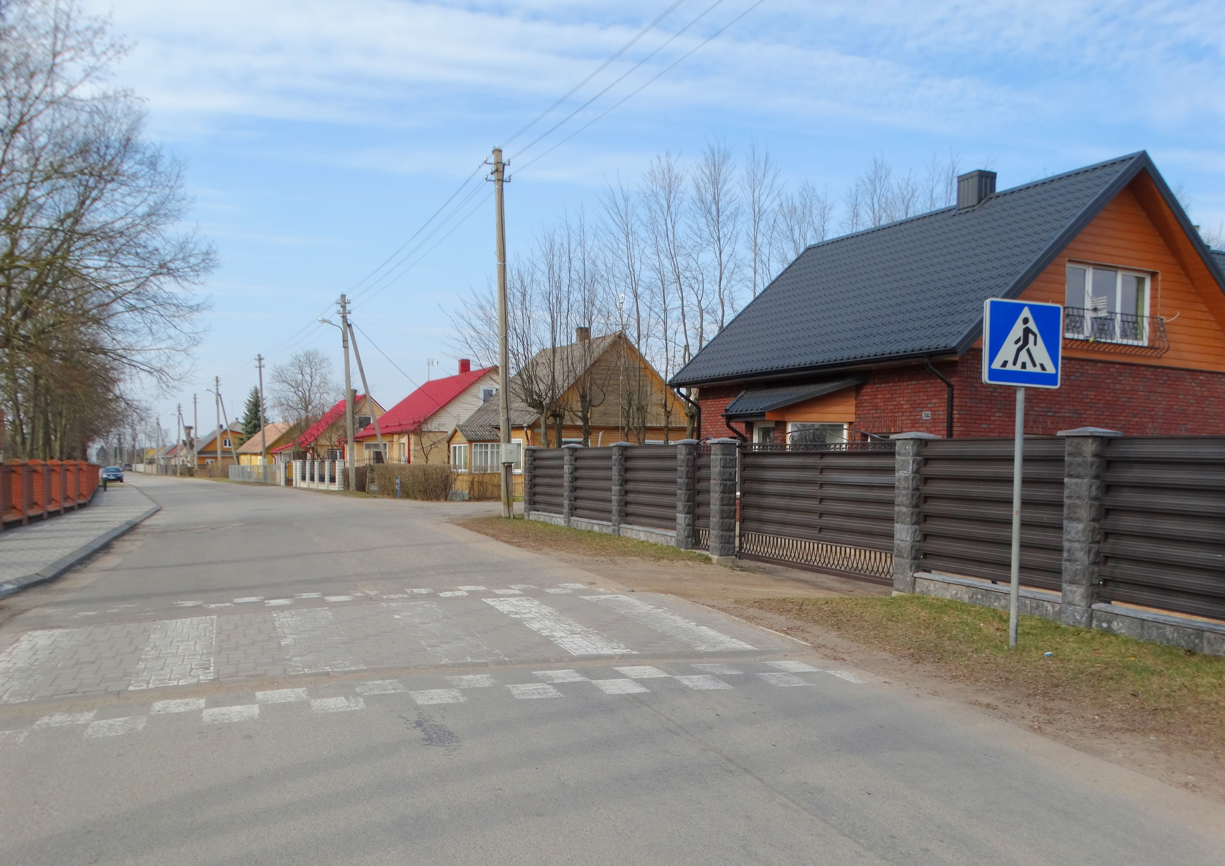 Street by gymnasium in Josvainiai, Kėdainiai district, Lithuania